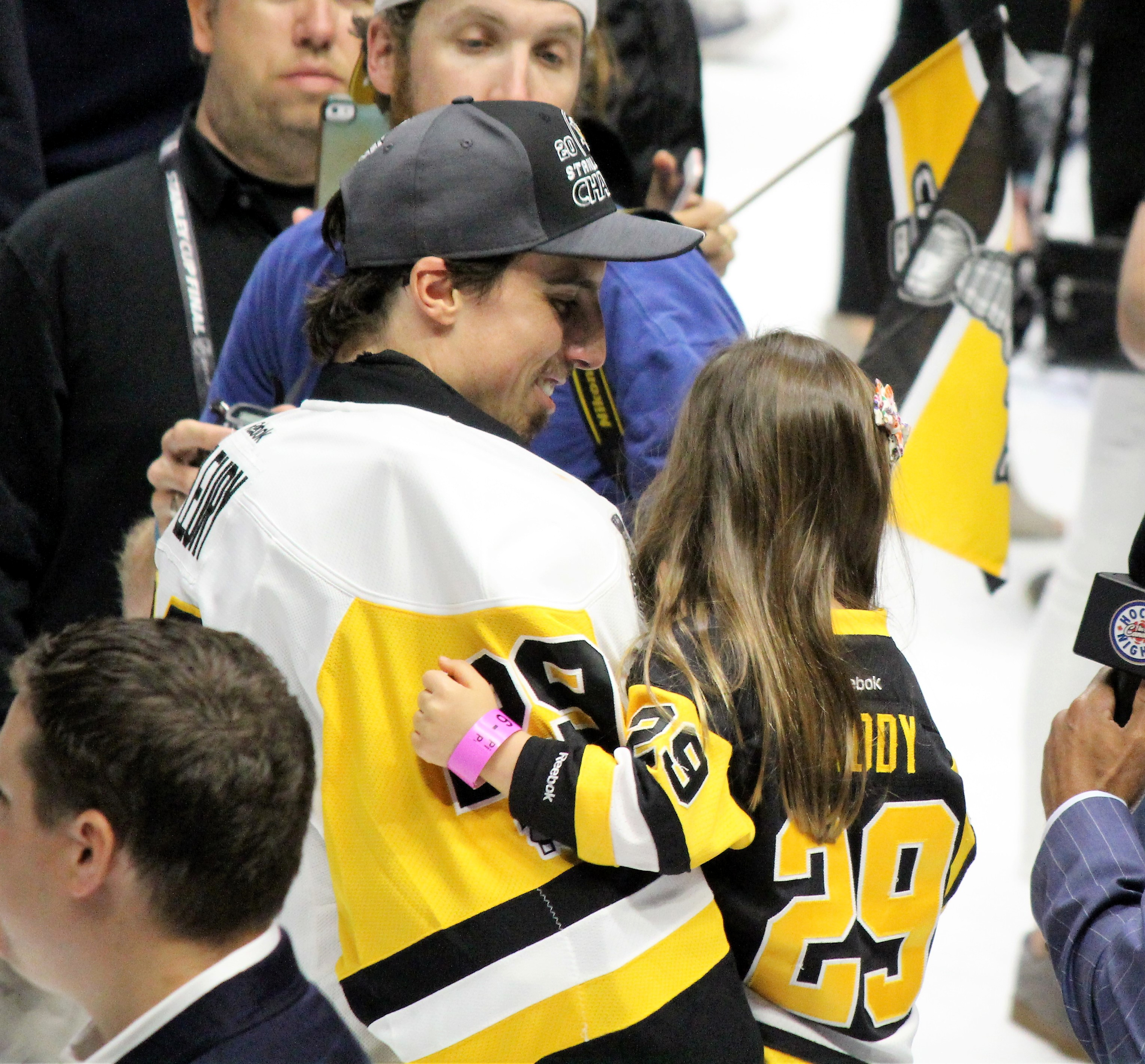 Pittsburgh Penguins goalie Marc-Andre Fleury with his daughter following the Pens 2017 Stanley Cup win.